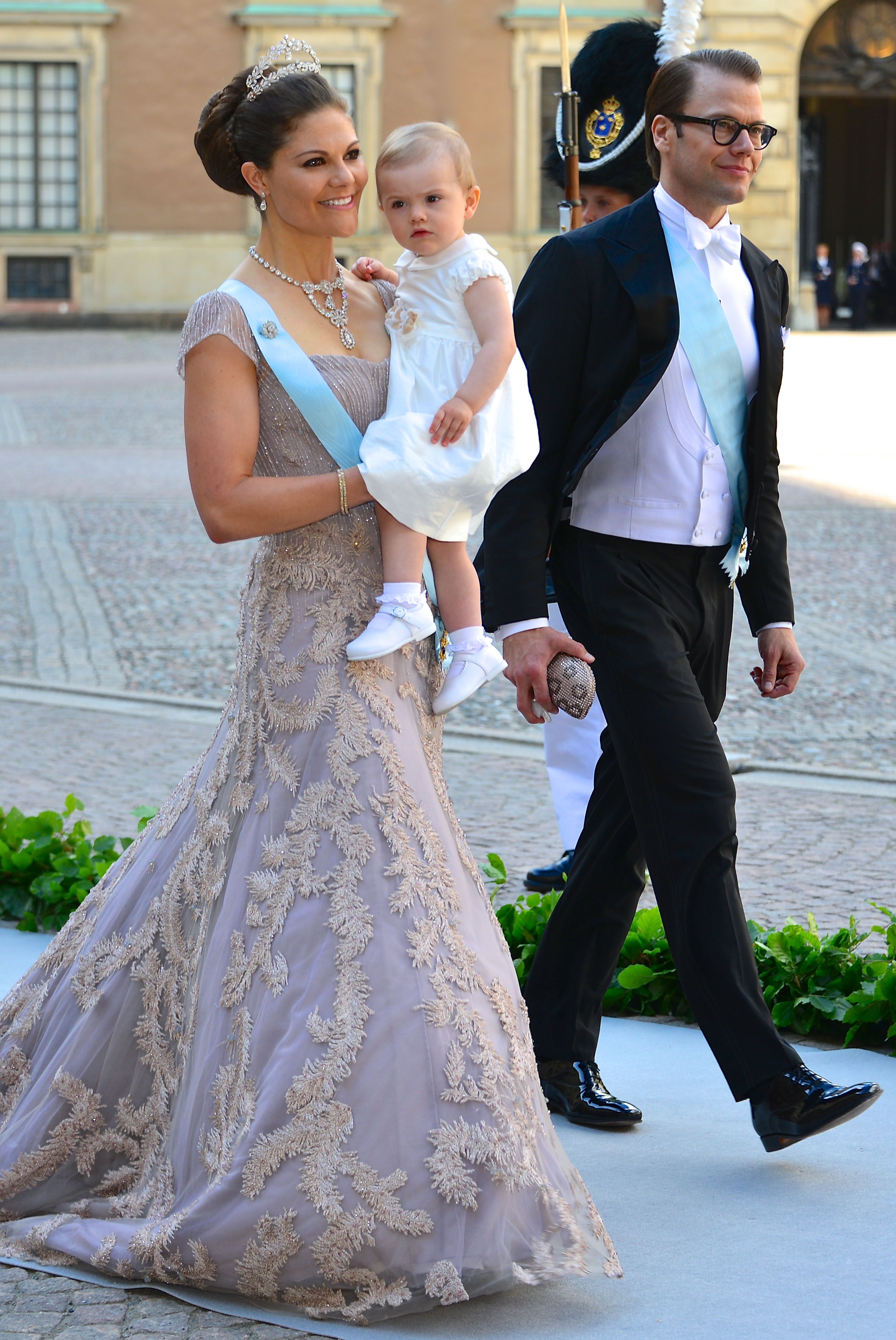 Crown Princess Victoria, Princess Estelle and Prince Daniel on the way to the castle church at the Royal Palace in Stockholm for the wedding between Princess Madeleine and Christopher O'Neill, June 8, 2013.